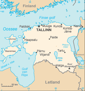 A map of Estonia.